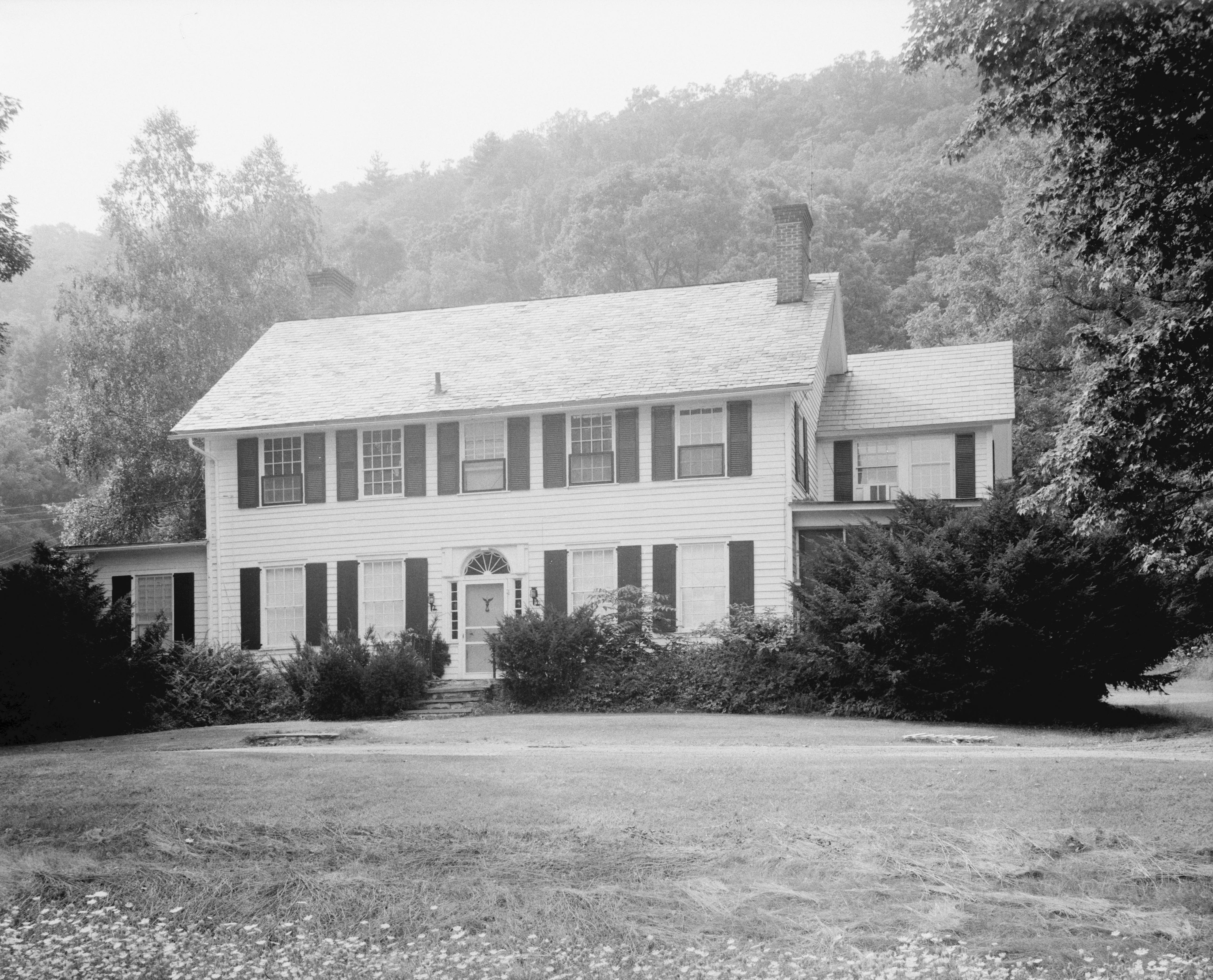 Front of the William Nyce House, located along U.S. Route 209 northwest of Bushkill within the Delaware Water Gap National Recreation Area in Lehman Township, Pike County, Pennsylvania, United States. Built circa 1820, it is listed on the National Register of Historic Places.